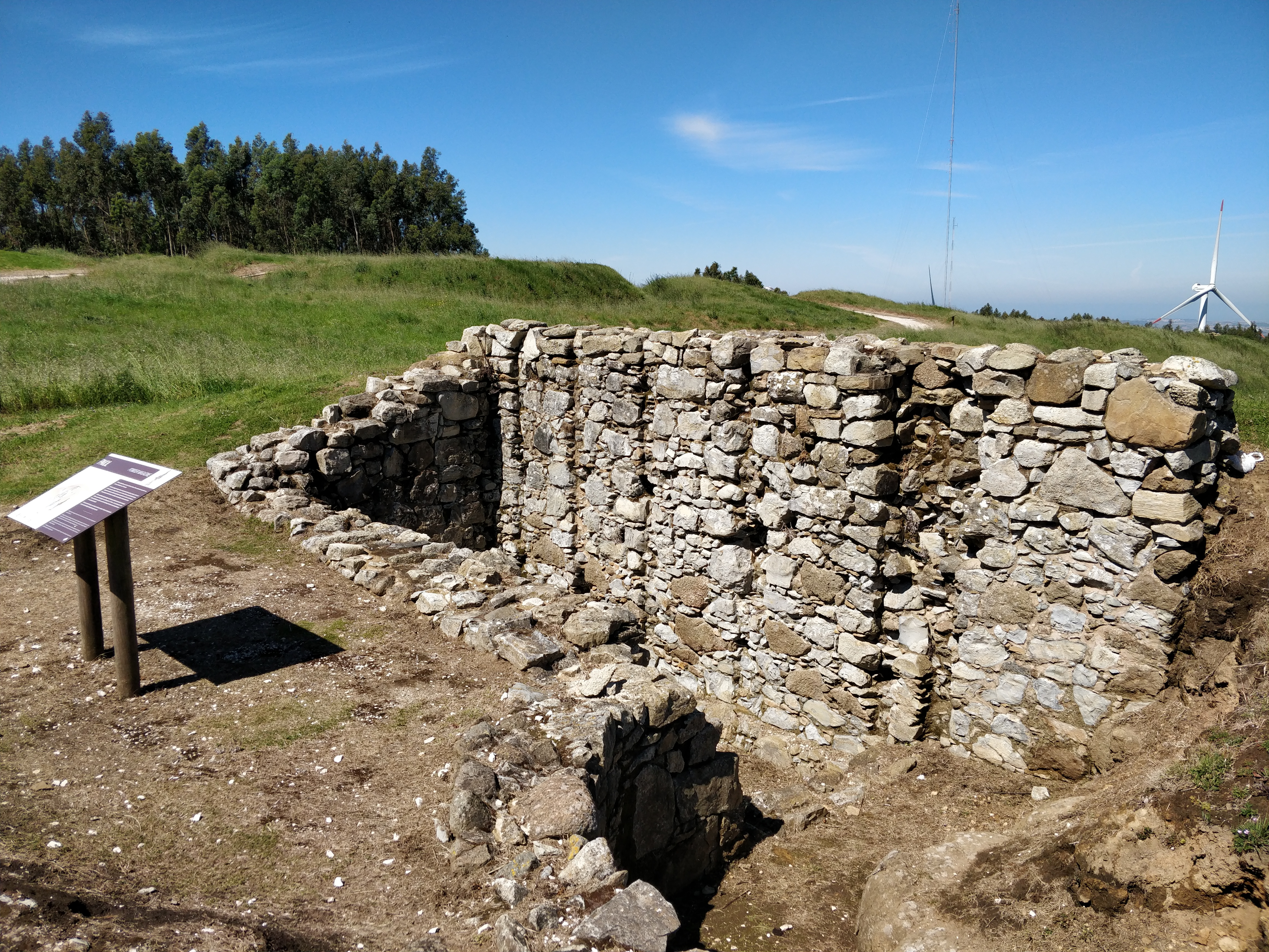 Fort of Alqueidão Powder Magazine. The Fort of Alqueidão was the largest fort on the Lines of Torres Vedras, just north of Lisbon, Portugal